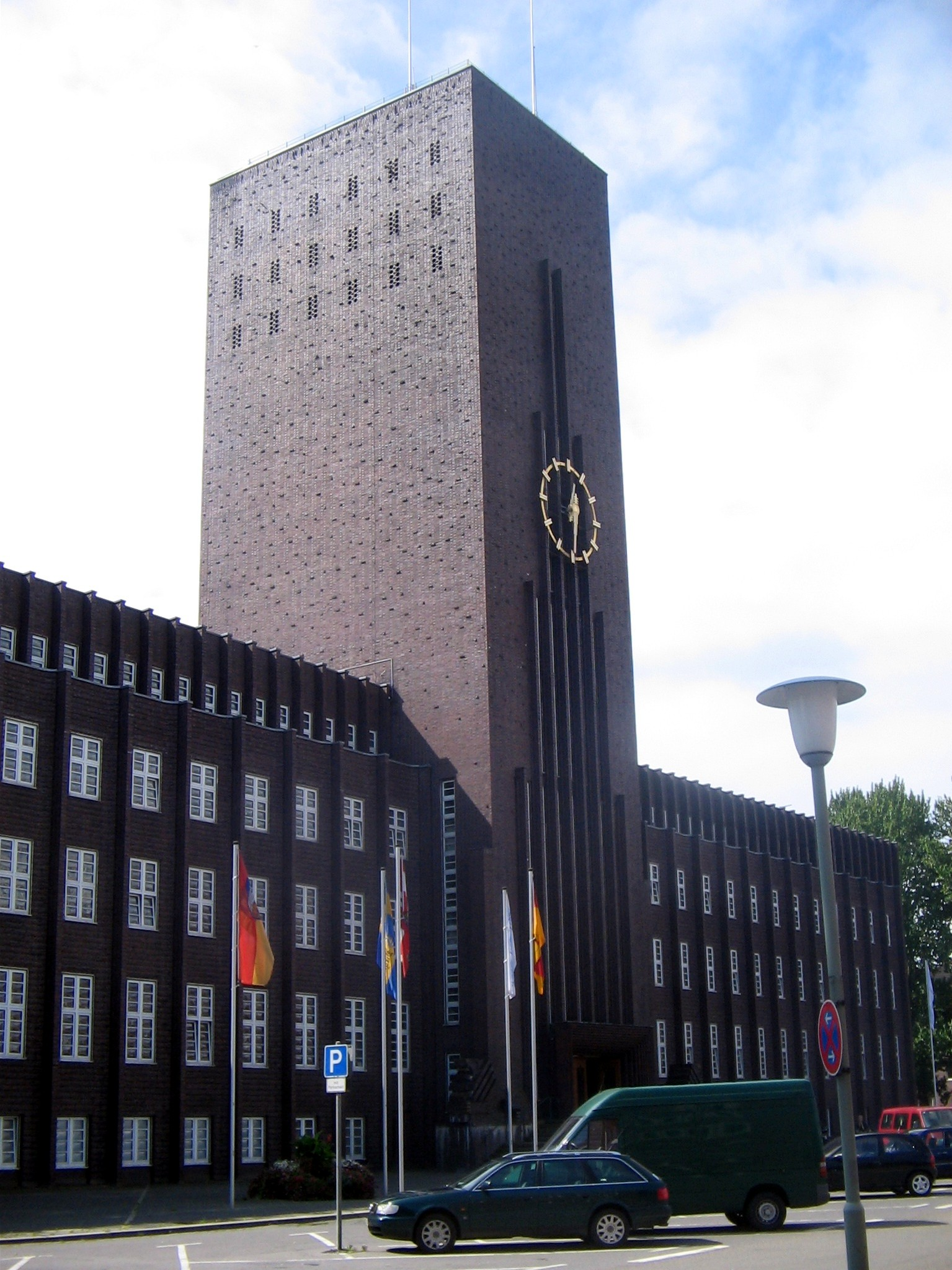 town hall of Wilhelmshaven, Germany, Lower Saxony